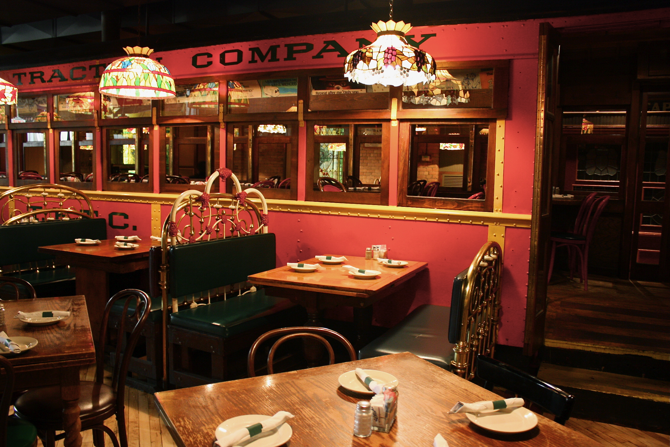 Currently under renovation, but there were still plenty of cool things to see.